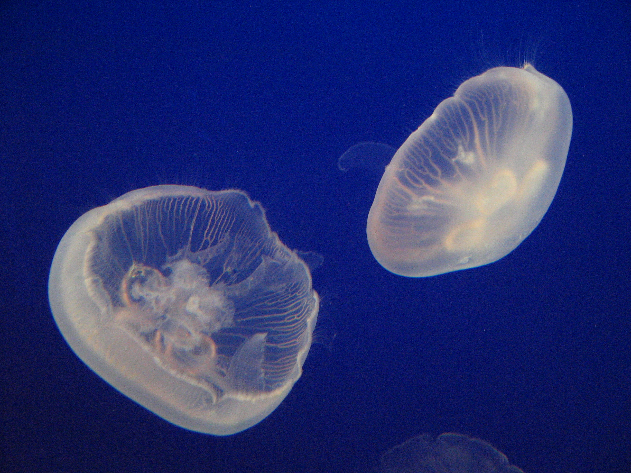 Photo by Yosemite. Aurelia aurita (Moon Jelly fish). Place at New Eno-shima Aqua.